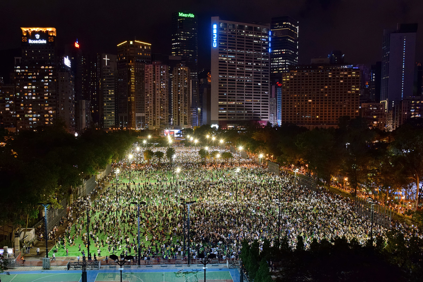 Candlelight Vigil for the 31st Anniversary of June 4 - Victoria Park